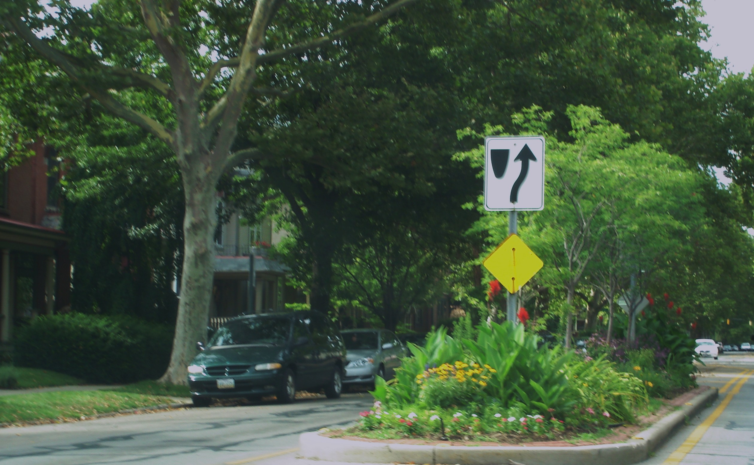 Victorian Village floral median